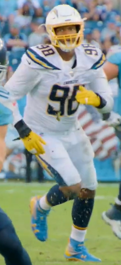 Isaac Rochell 2019. Image from Timely 3rd Down Conversions vs. Chargers | Beneath the Surface, ~ 02:01